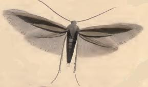 Stainton’s Natural History of the Tineina (1855–1873): Coleophora violacea